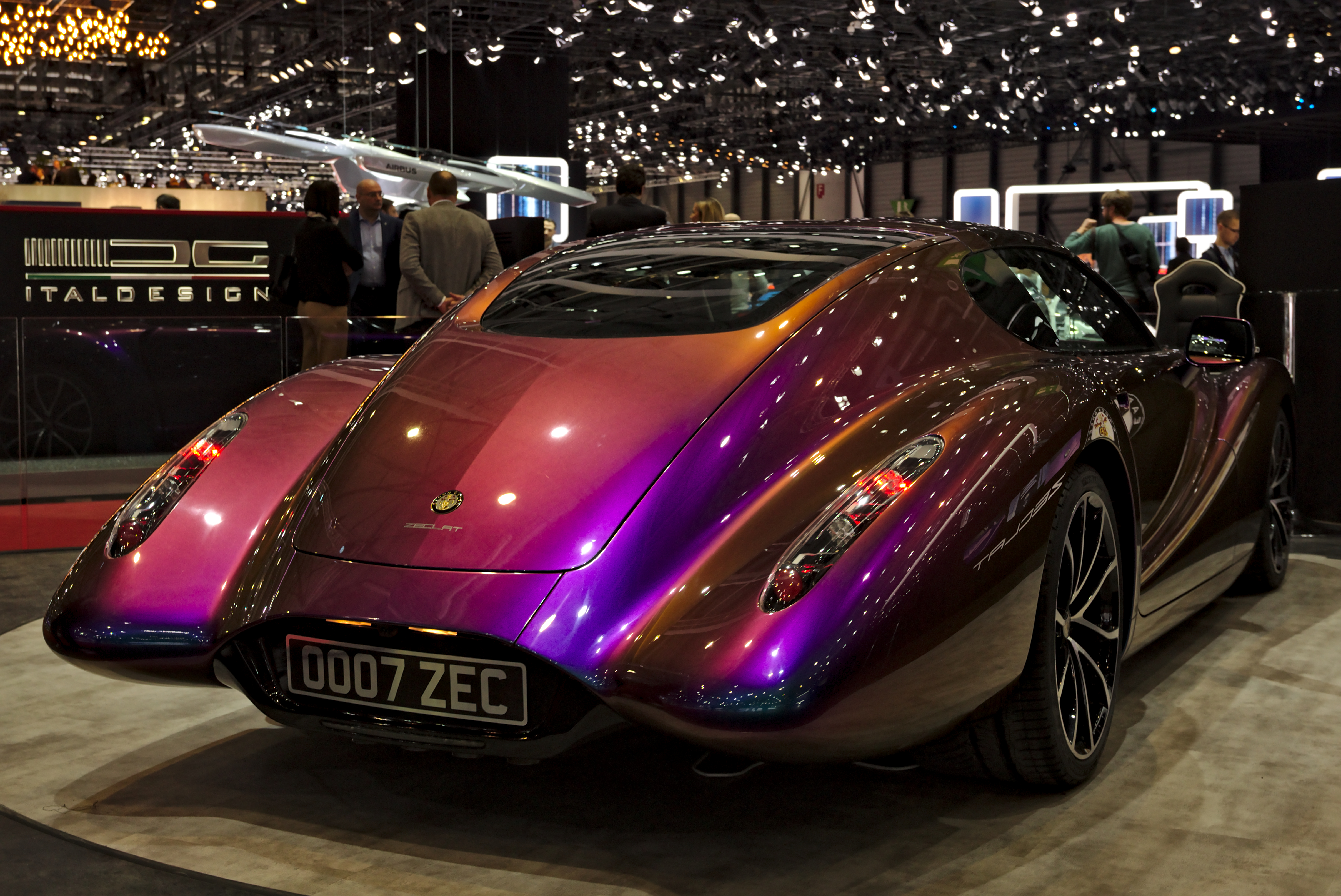 Eadon Green Zeclat at Geneva Motorshow 2018